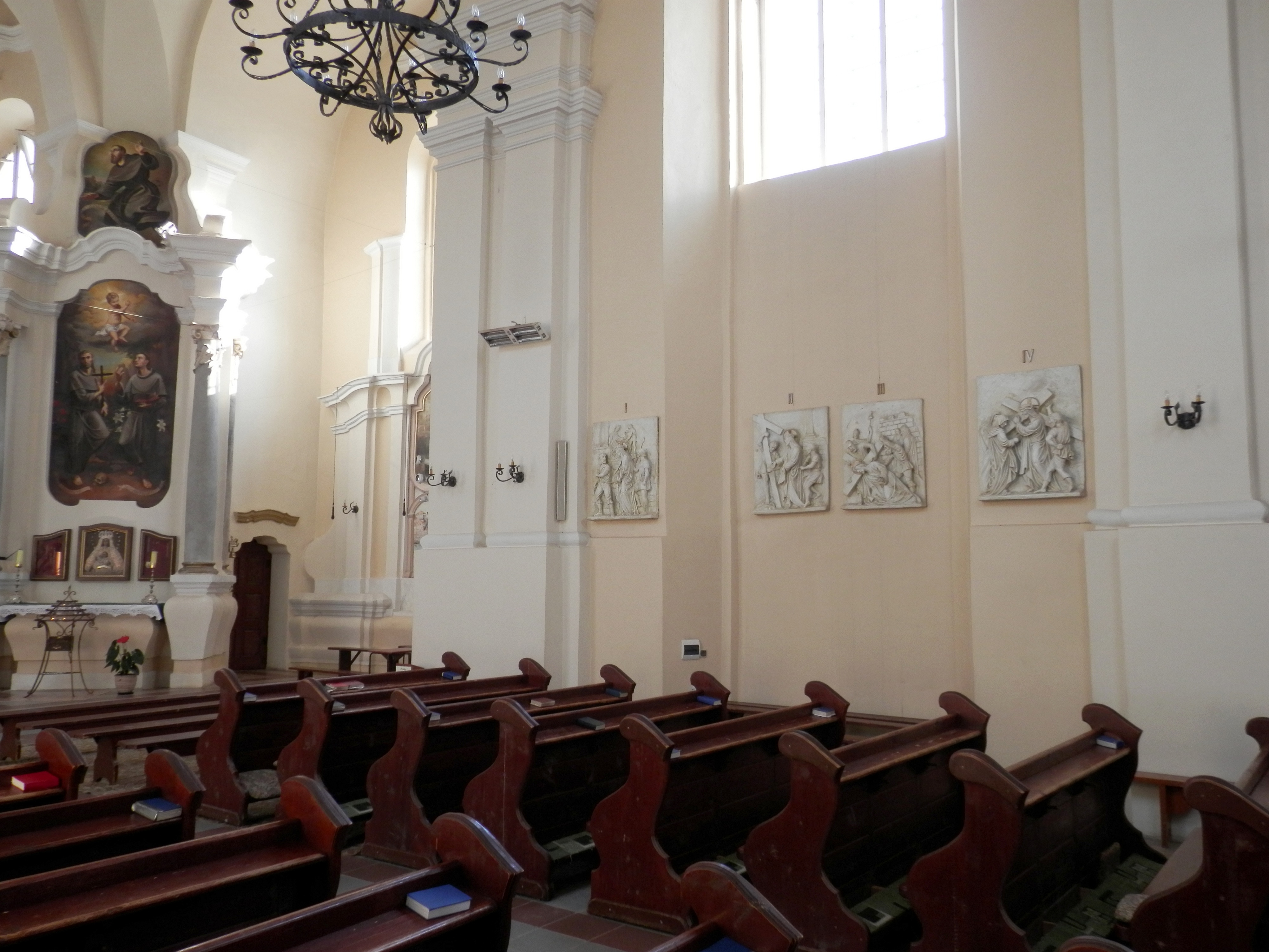 Franciscan Church of Saint Michael the Archangel. Ivyanets, Belarus.